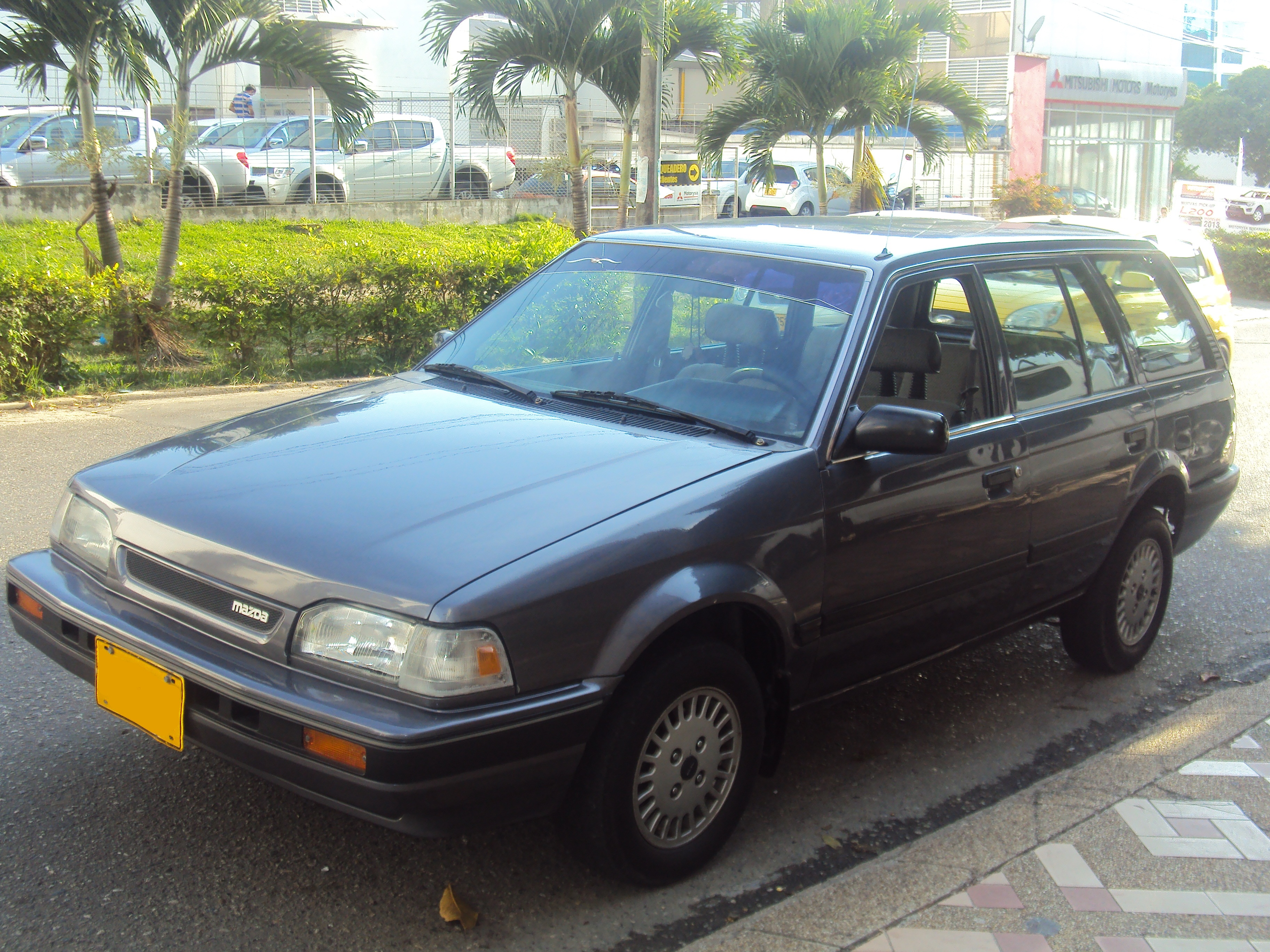 1993 Mazda 323 Station Wagon in Colombia